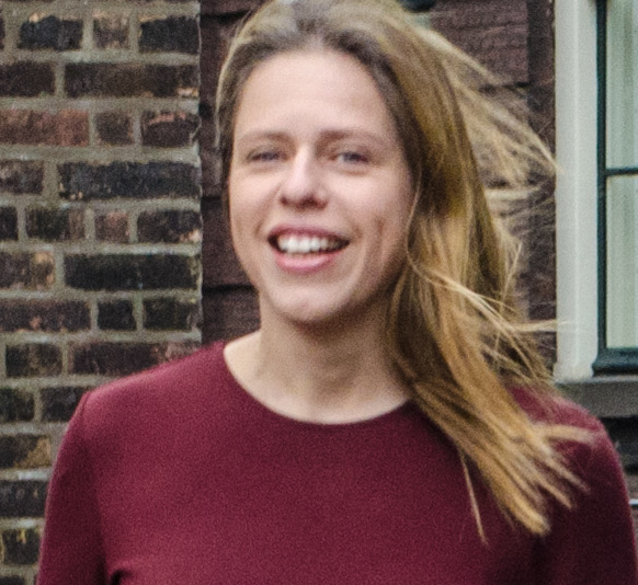 Carola Schouten